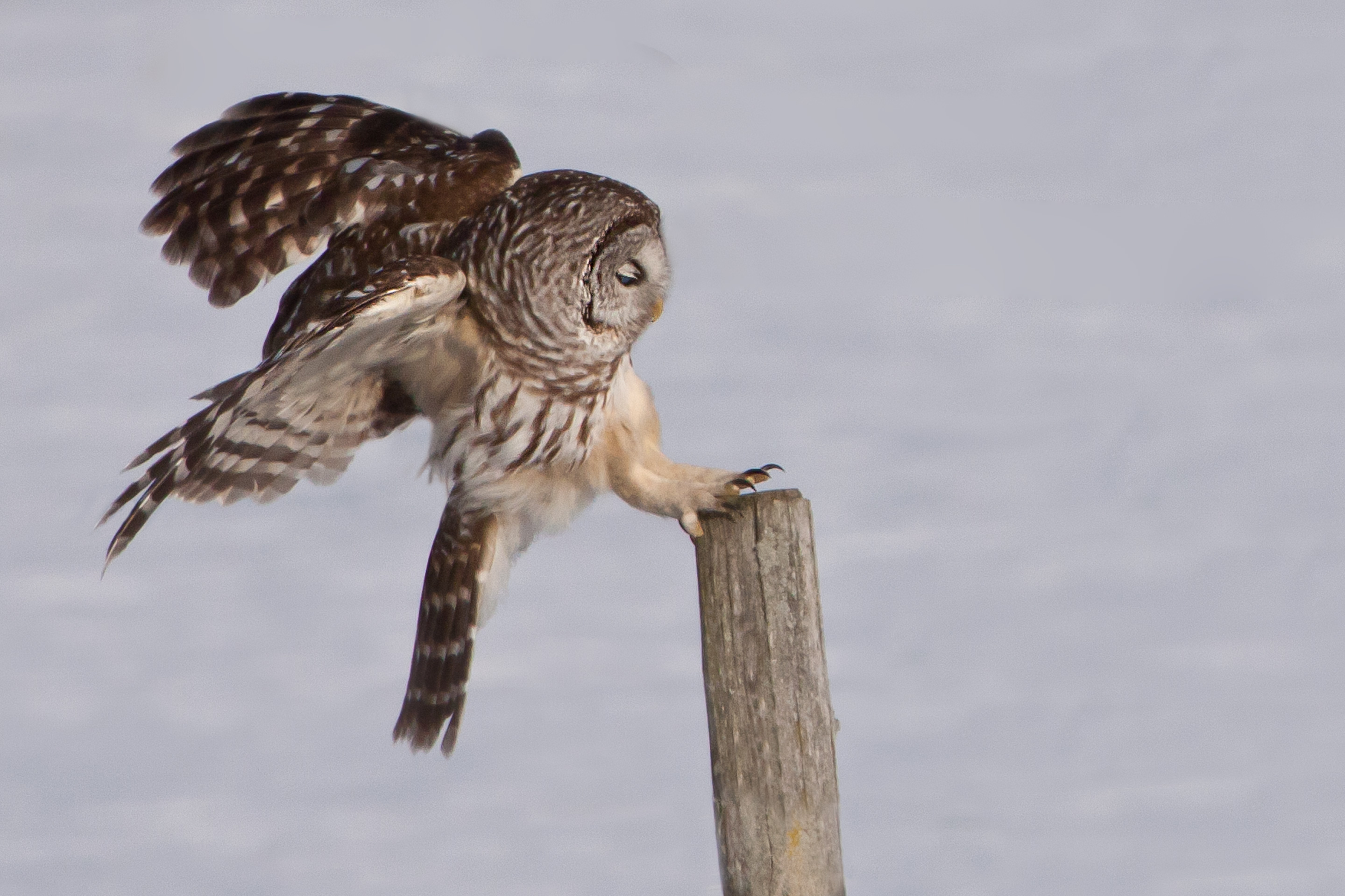 Barred owl in flight, landing on a fence post. Note tail used as air dam and brake.